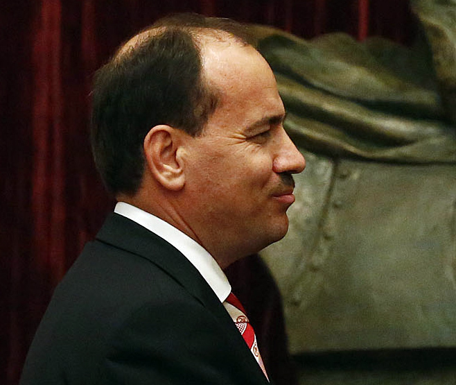 Albanian President Bujar Nishani in Tirana, November 22, 2012